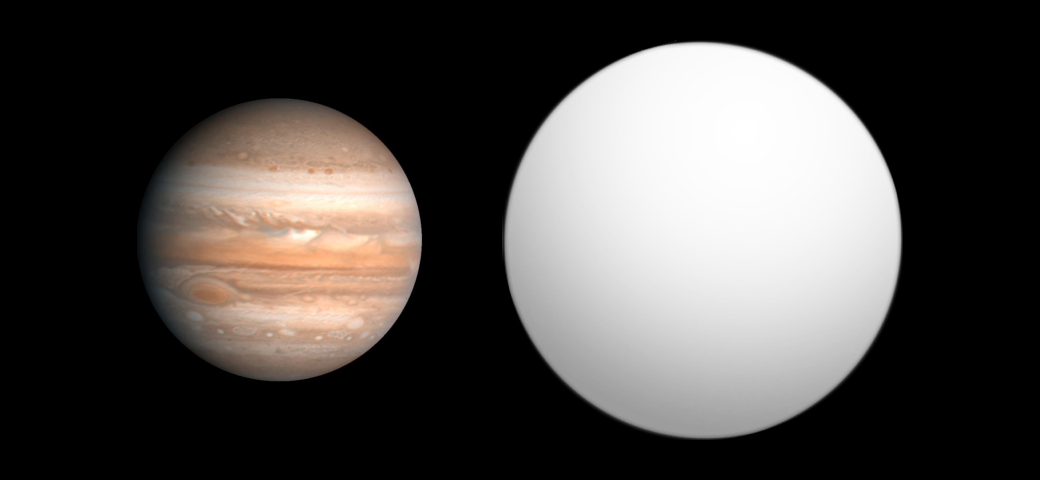 Comparison of best-fit size of the exoplanet HAT-P-9 b with the Solar System planet Jupiter, as reported in the Open Exoplanet Catalogue[1] as of 2015-11-14. ↑ Open Exoplanet Catalogue (2015-11-14). Retrieved on 2015-11-14.